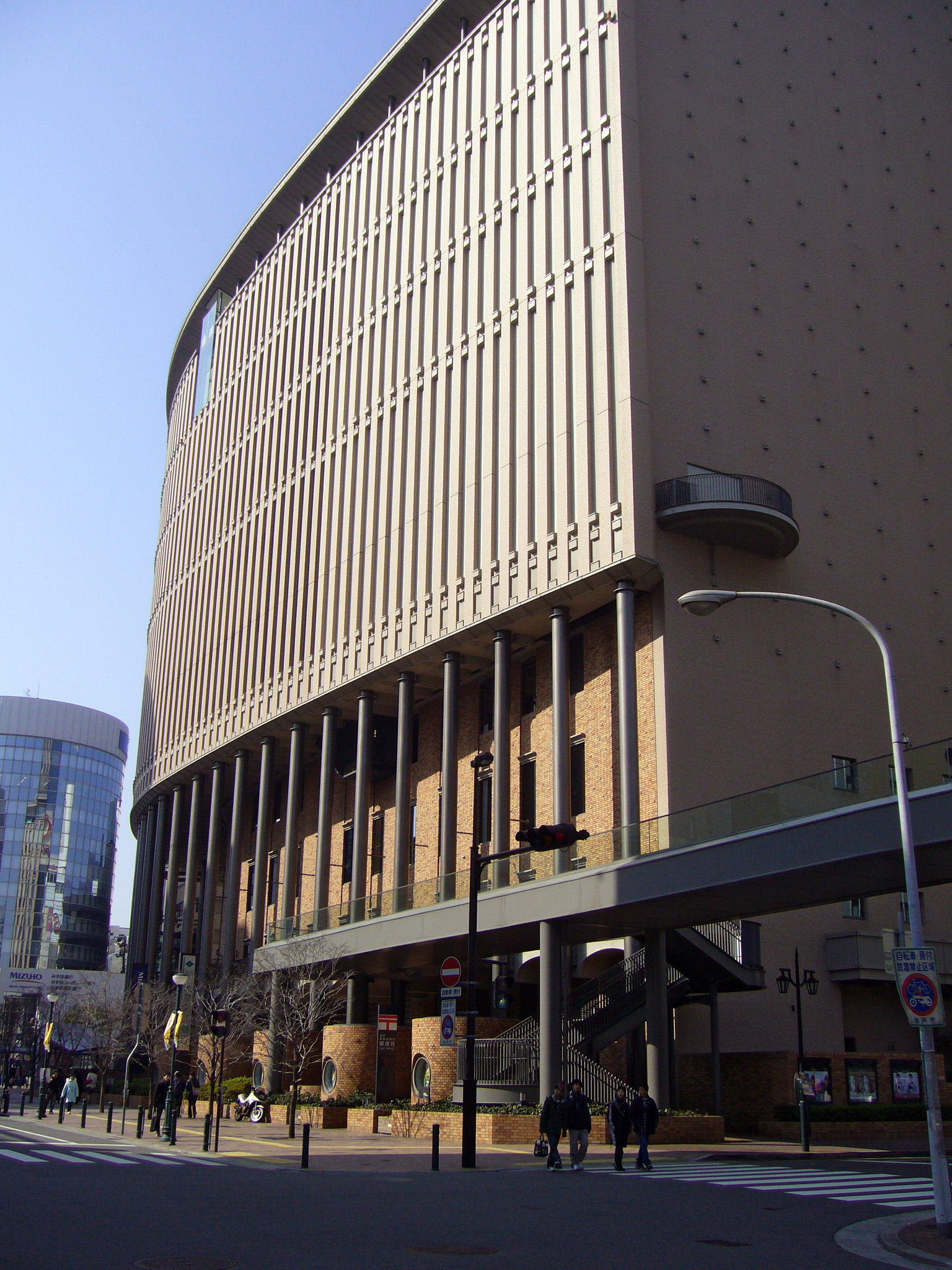 Kobe International House Building in Kobe, Hyogo prefecture, Japan